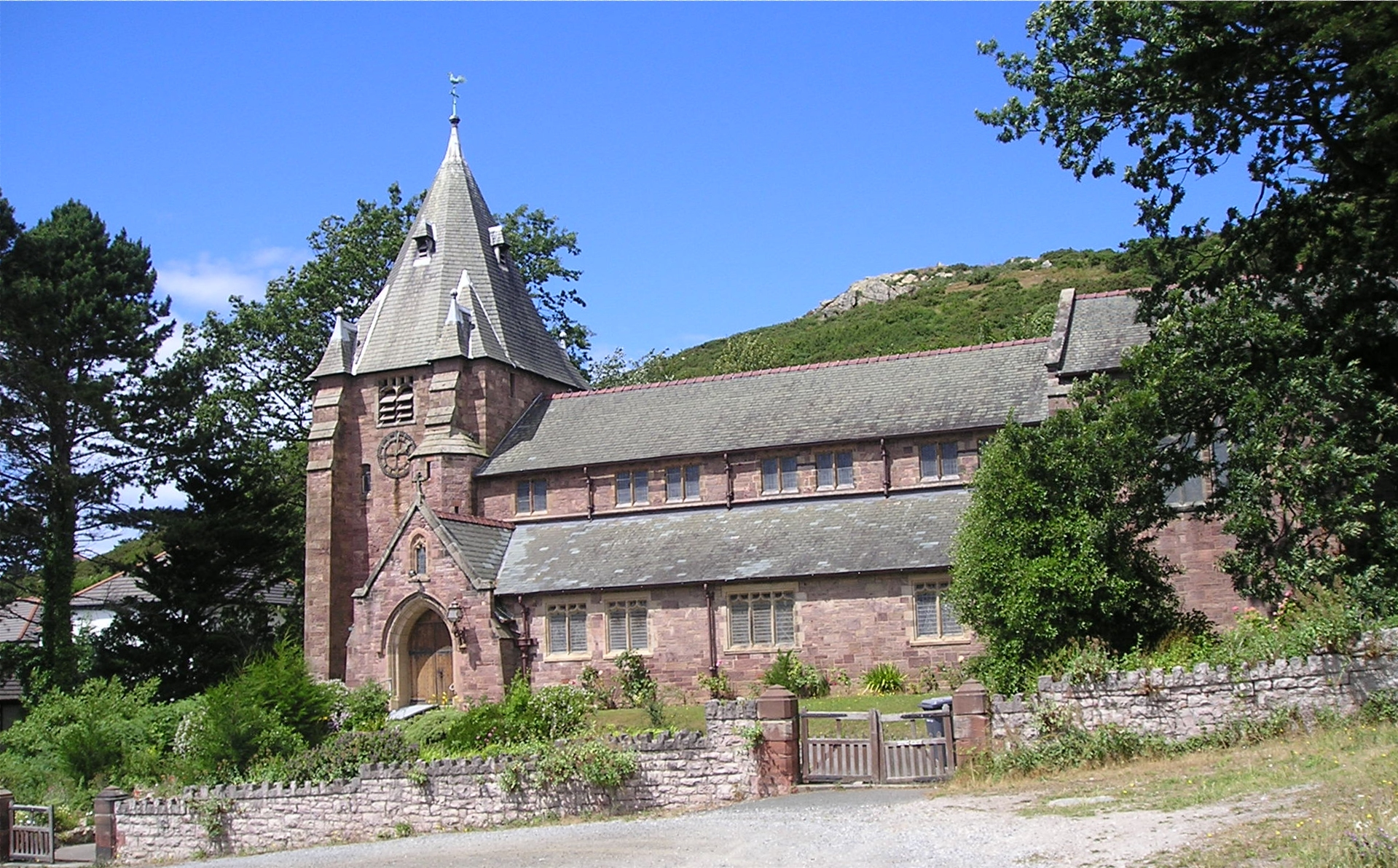 Photograph by me Noel Walley